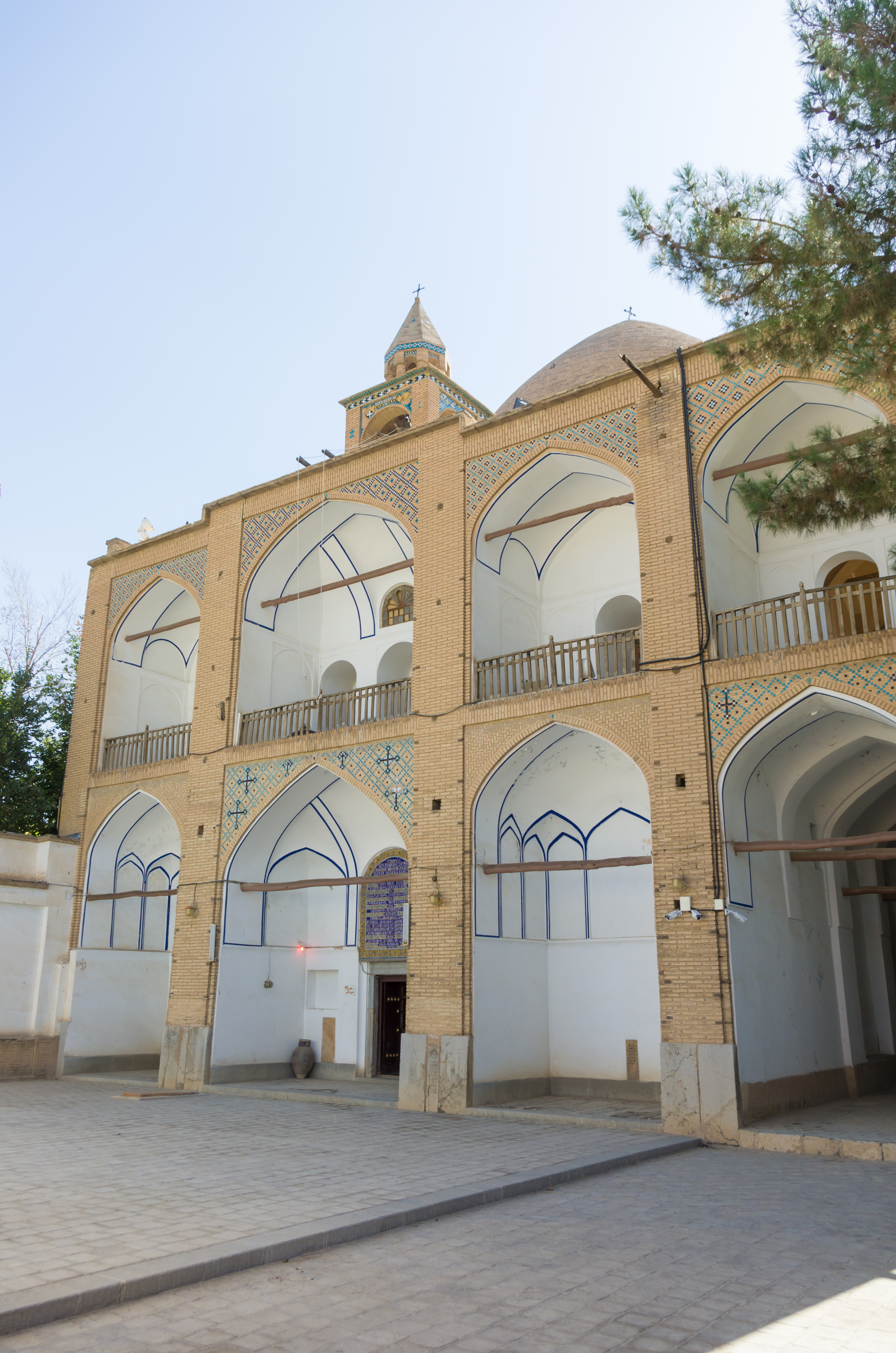 Bedkhem Church in the Julfa quarter in Isfahan, Iran.